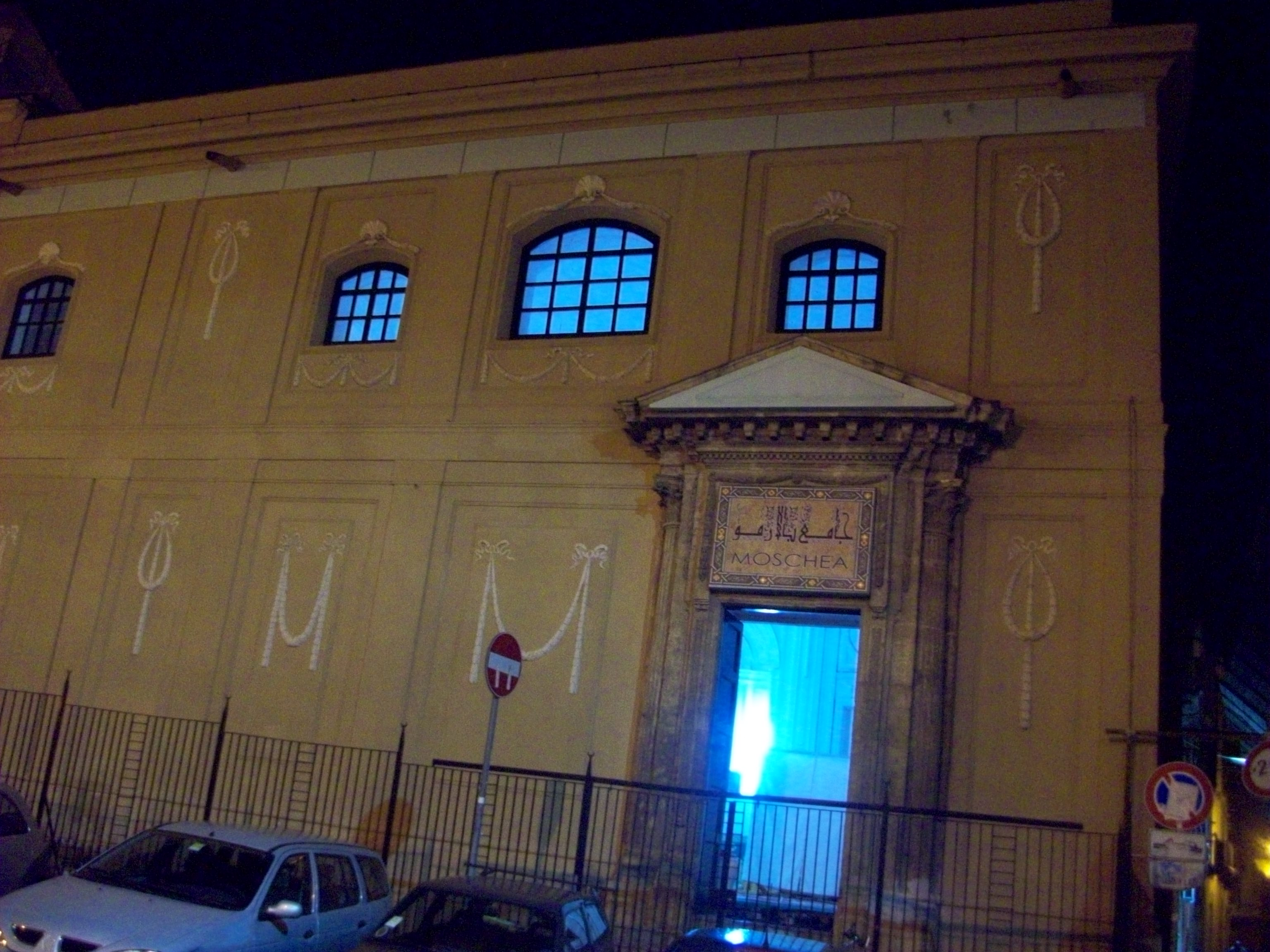 Tunisian Mosque in Palermo, Italy